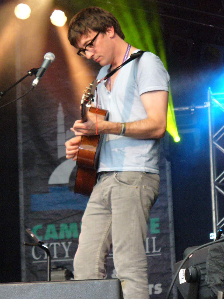 Graham Coxon - Cambridge Folk Festival 2007